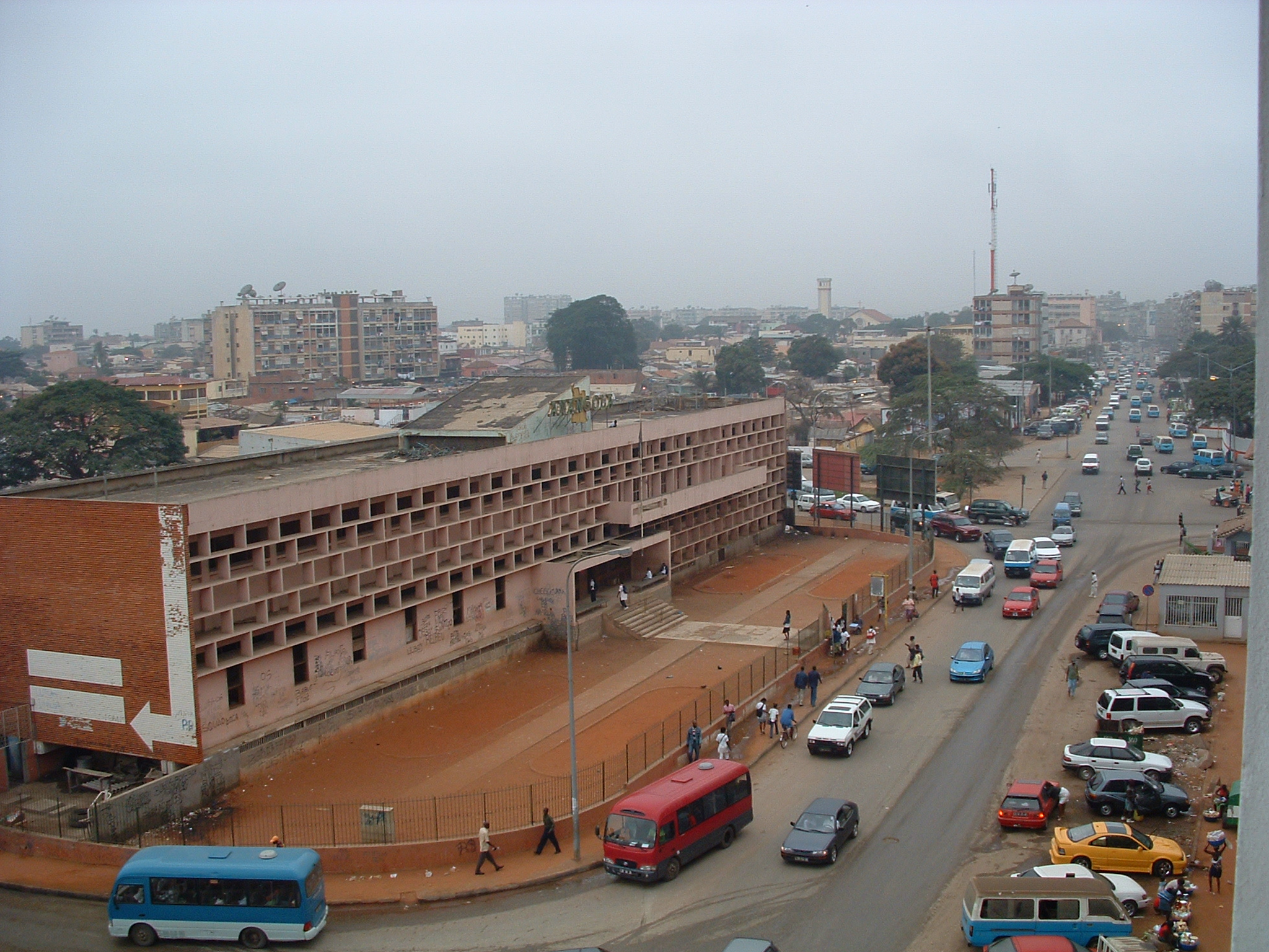 "Anangola Building" (1950s), by modern architect Vasco Vieira da Costa, influenced by Le Corbusier.